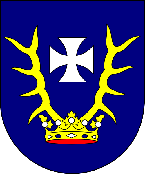 Coat of arms (shield only) of Domonkos Zichy, bishop of Rožňava, Slovakia (1840 - 1842), bishop of Veszprém, Hungary (1842 - 1849). Identical with Zichy family arms.